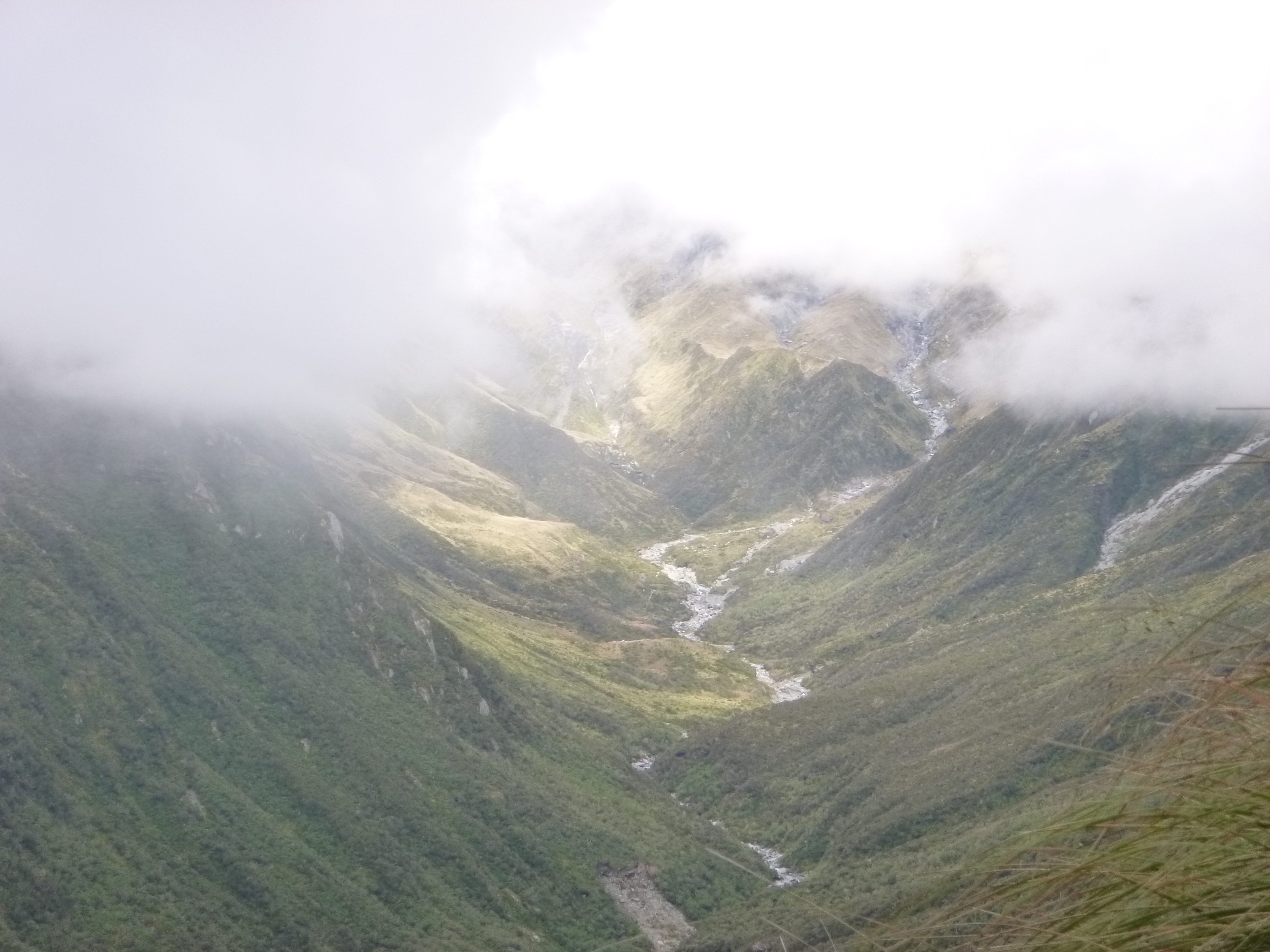 Upper reaches of the Tuke River ( above the gorge)